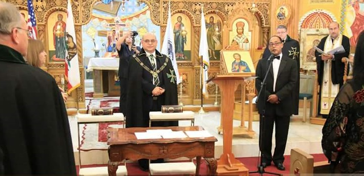 The Grand Chancellor of the Hospitaller Order of St. Lazarus of Jerusalem, Massimo Ellul, with the Grand Prior of Ethiopia, HIH Prince Ermias Sahle Selassie in Los Angeles, US, September 2016.